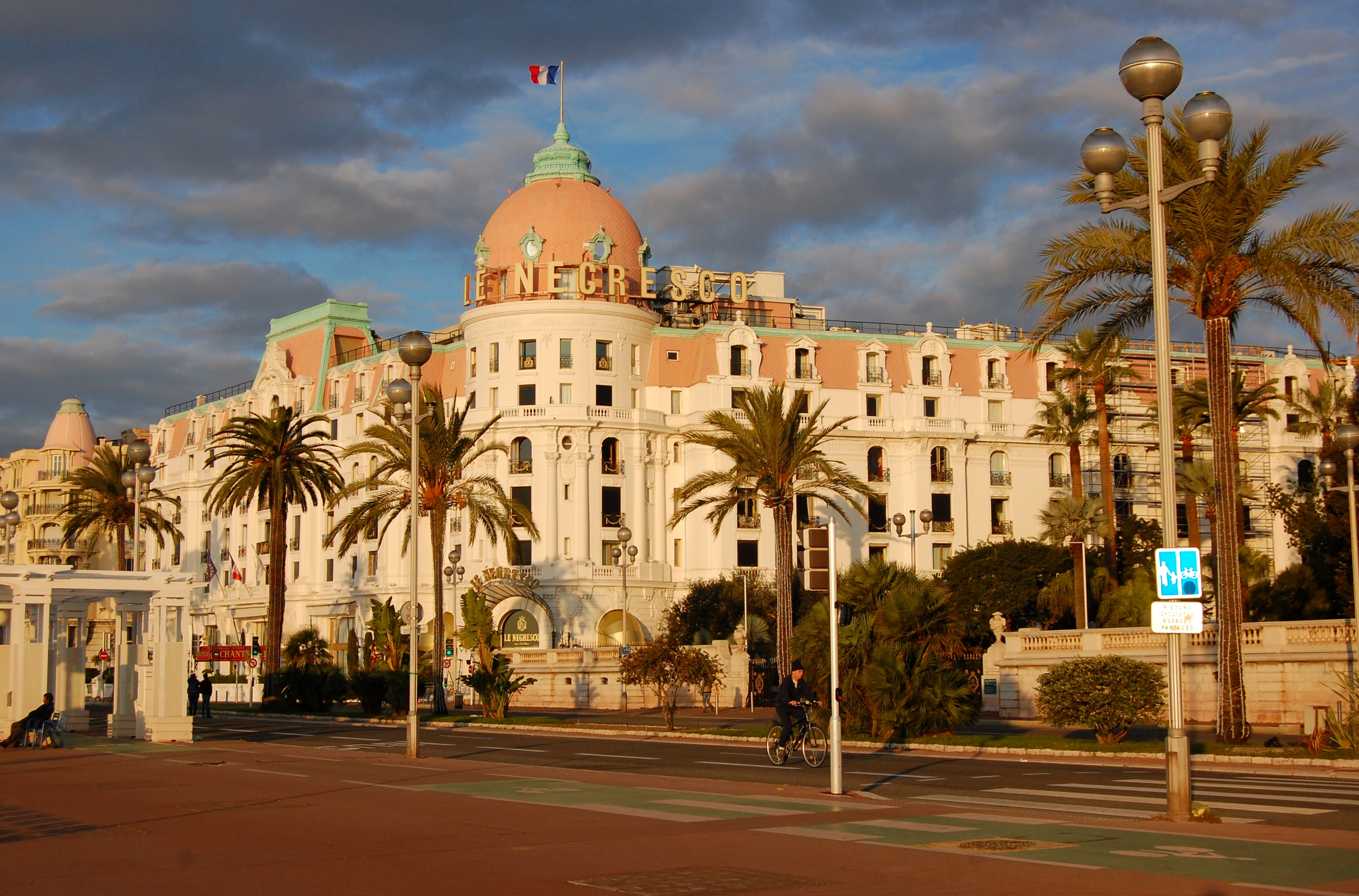 Le Negresco hotel beneath a cloudy sky at sunrise .